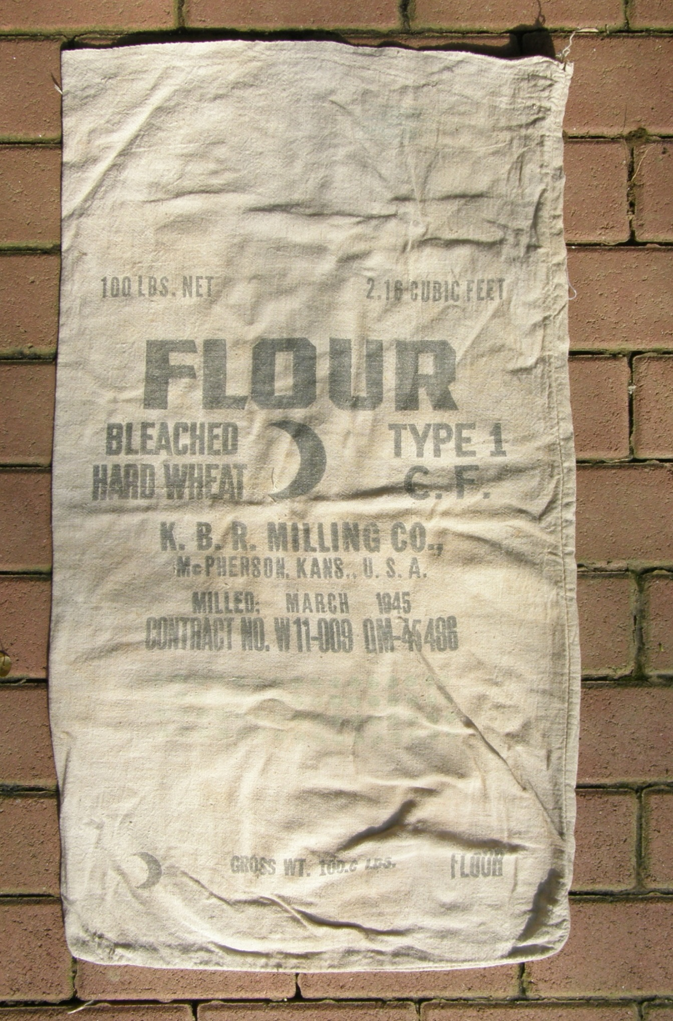 Wheat Sack, milled 1945 in McPherson, Kansas USA, Marshall Plan to South Germany, Baden